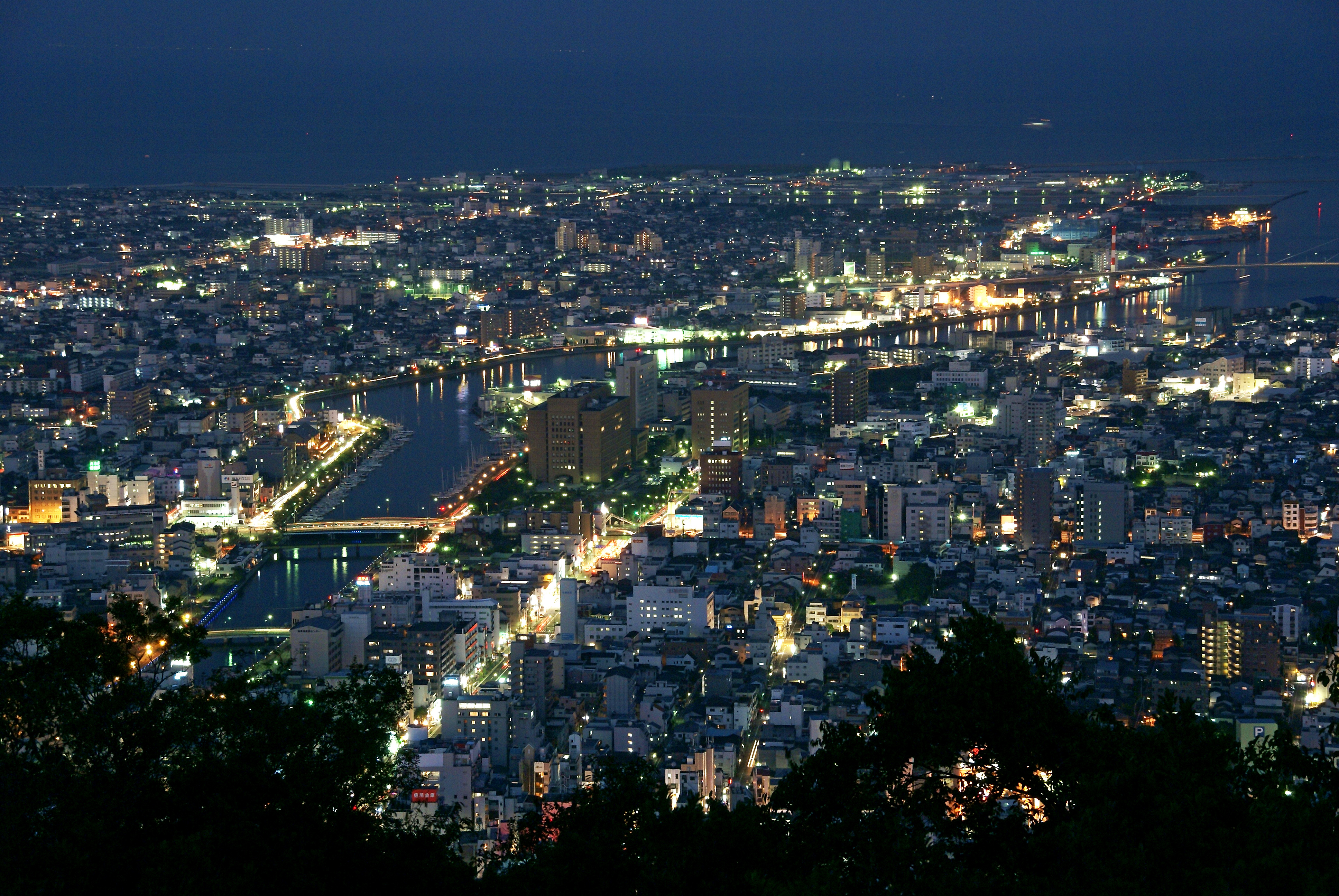 Cityscape of Tokushima seen from Bizan in Tokushima Prefecture, Japan